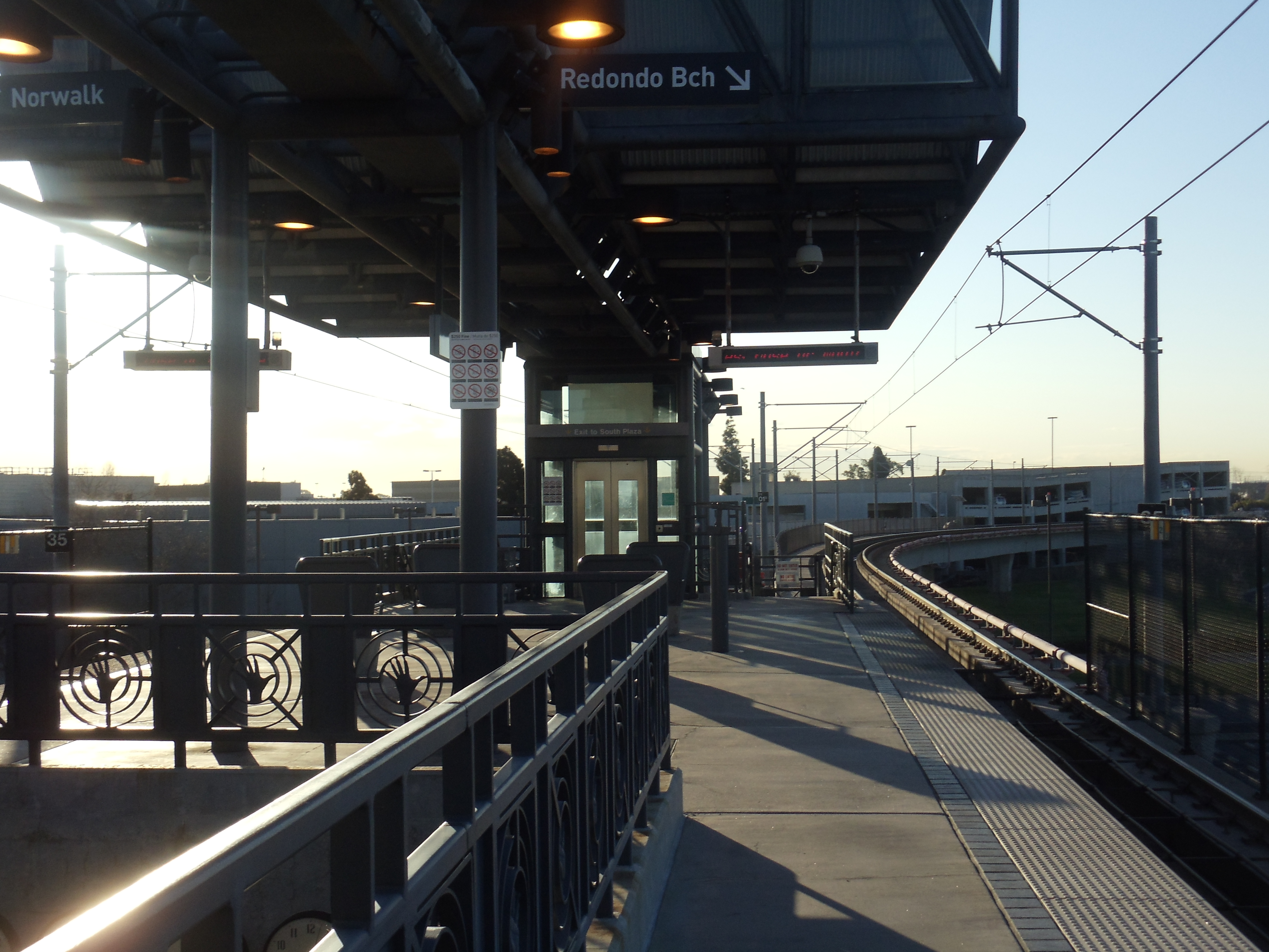 South end of the station.